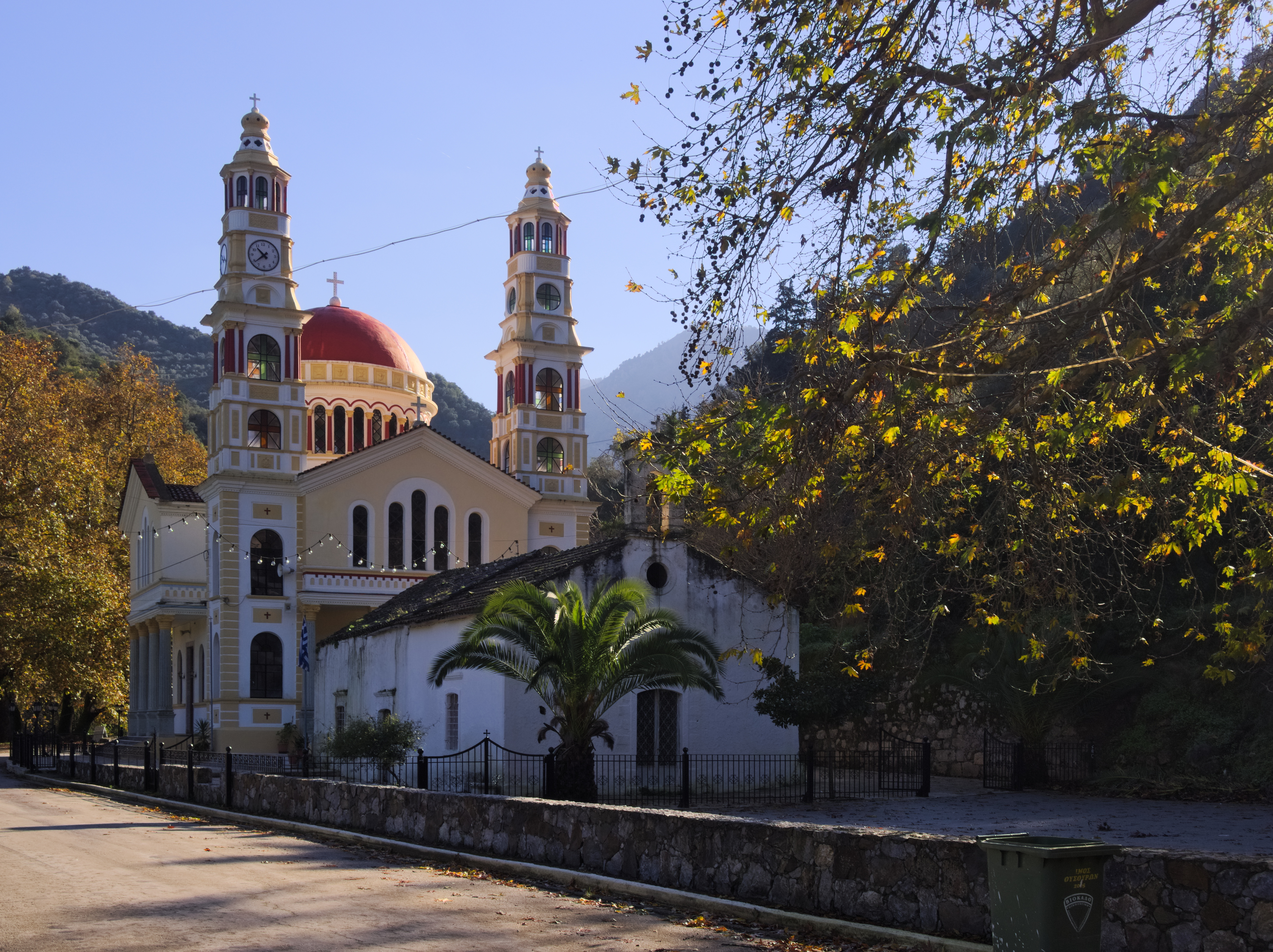 The churches in Meskla, both dedicated to the Immaculate Conception. The front one dates from the Byzantine era and the back was constructed from 1962 to 1972.